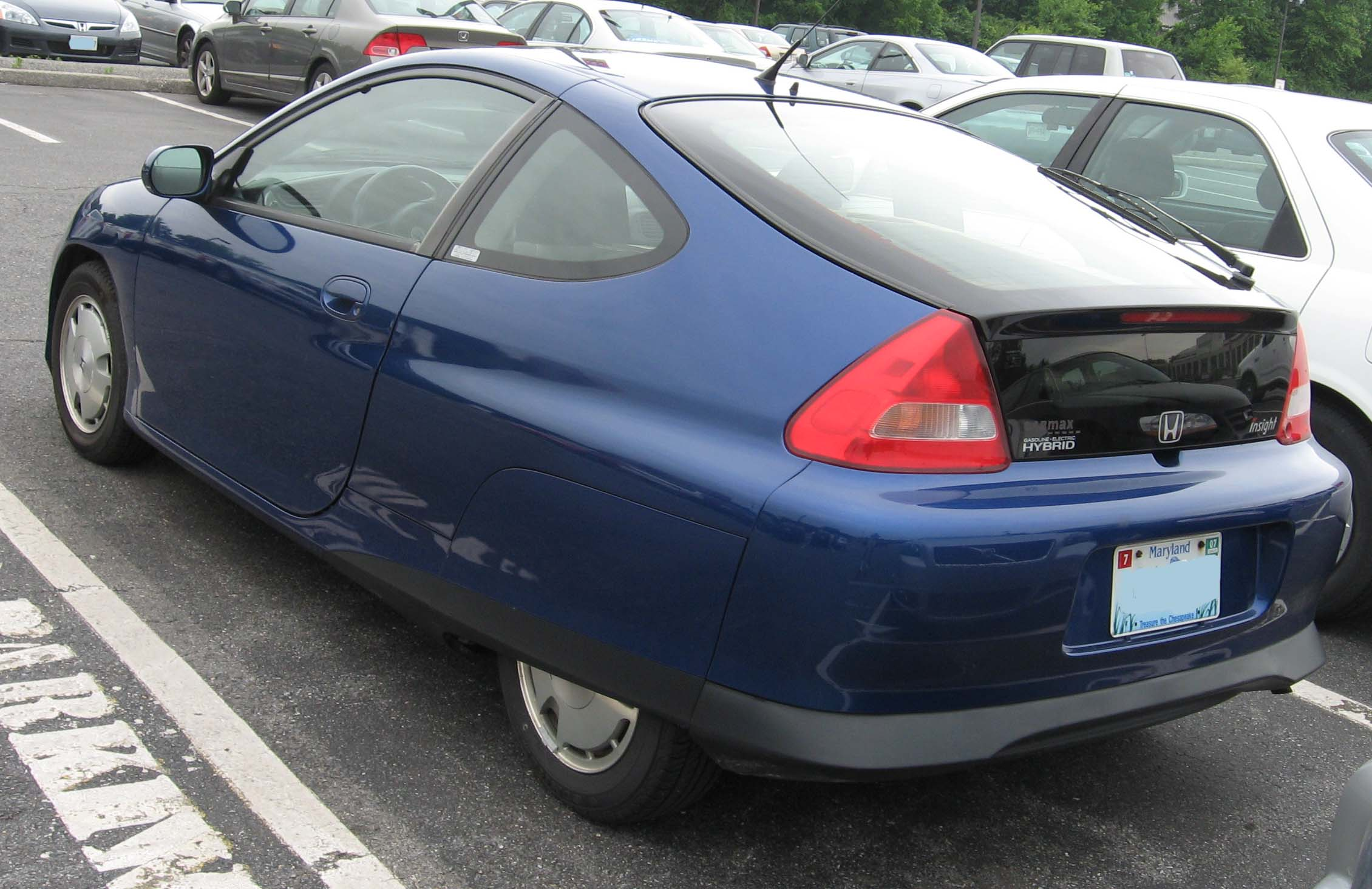 Honda Insight photographed in USA.